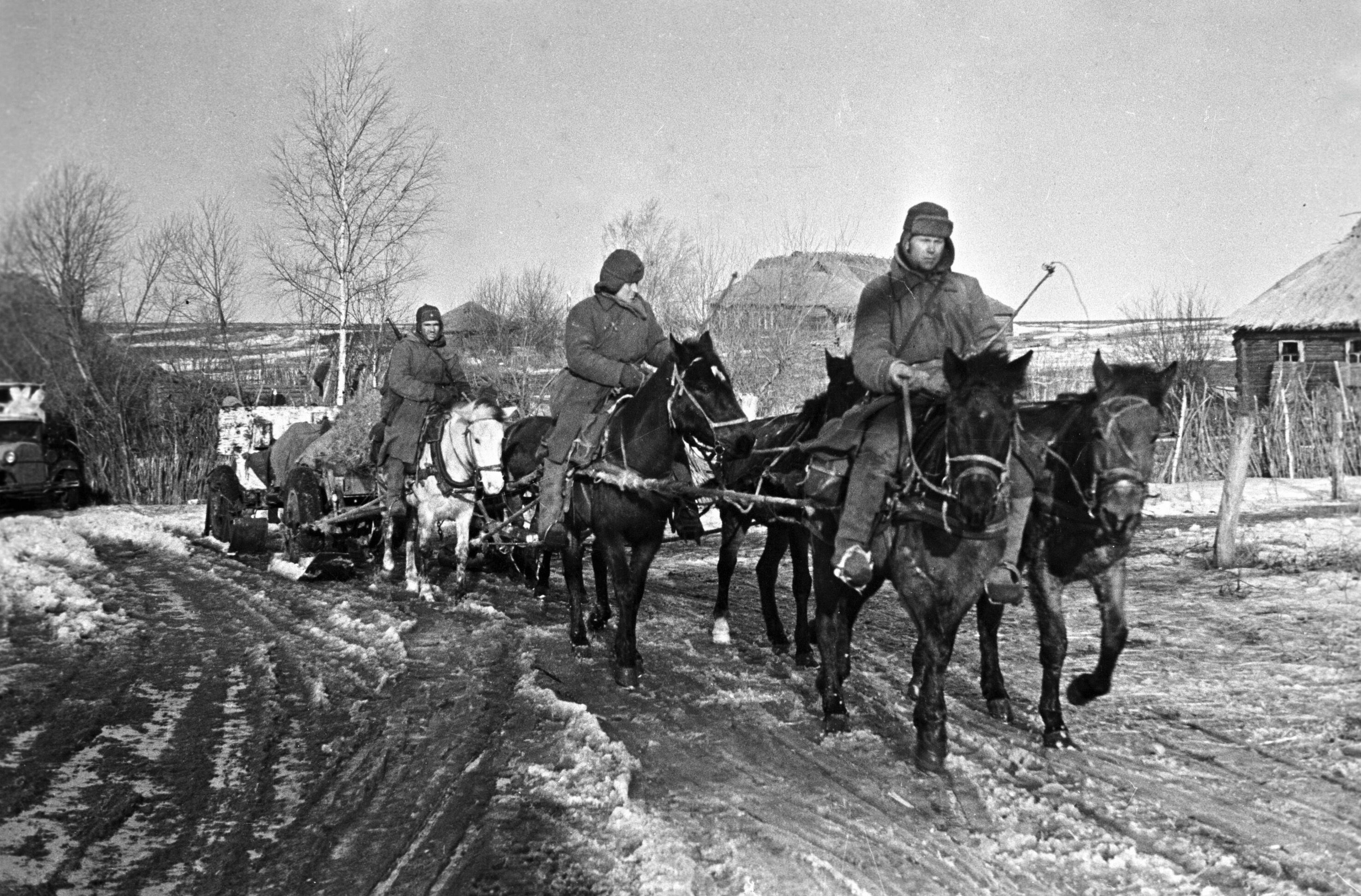 “A rifle regiment marching”. A caravan of the artillery going to the frontline to the north-west of Vyazma.